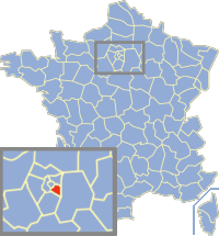 Map of France with highlighted #94 department (taken from fr.wiki) (Original name File:Carte France Département 94.png on Commons and [ Rinaldum